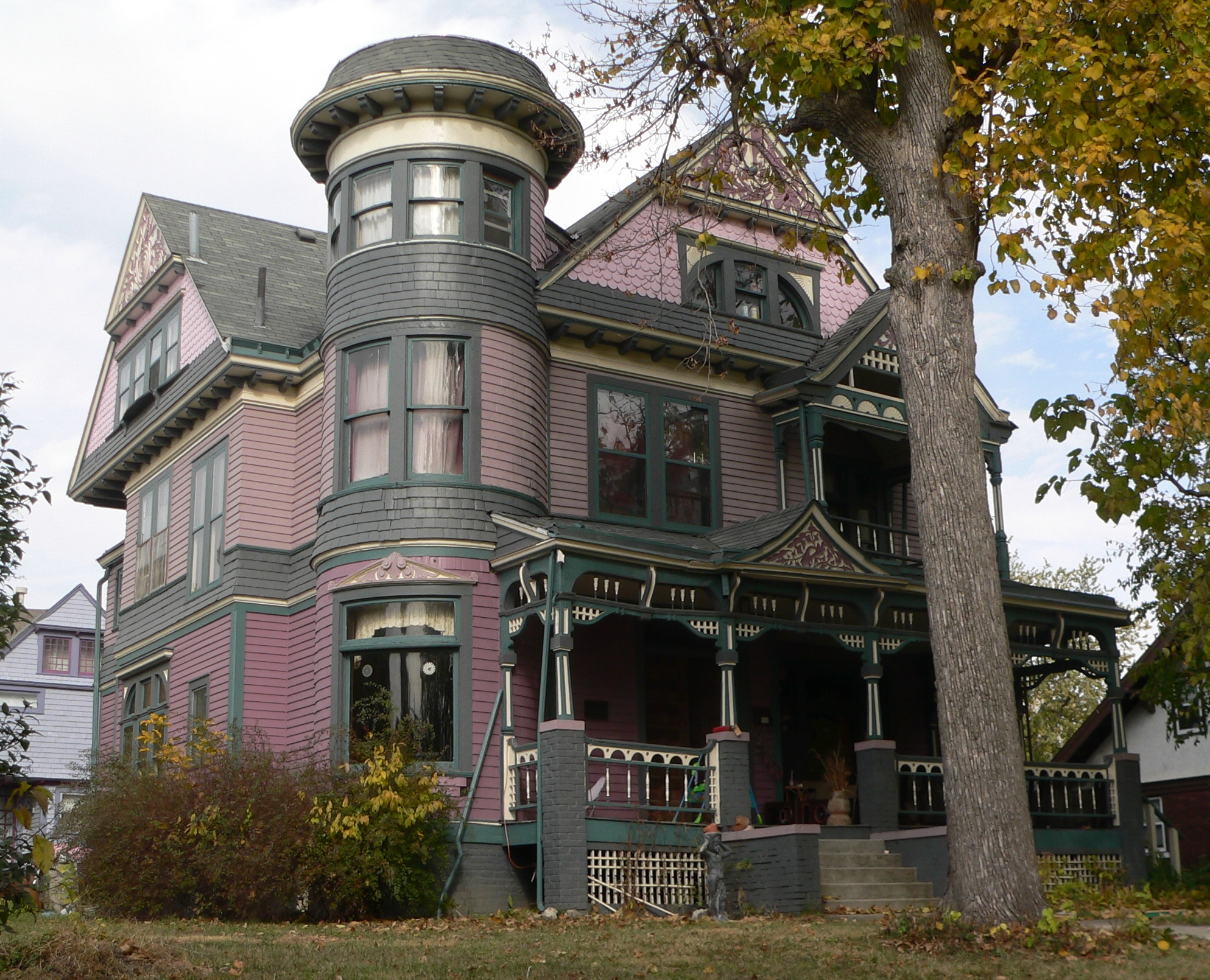 Edgar Zabriskie House, located at 3524 Hawthorne Avenue in Omaha, Nebraska; seen from the southwest.